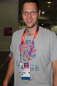 Alex Porter ex-Mens GB Volleyball Captain taken in 2012